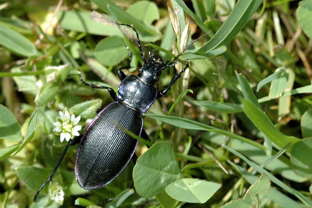 Picture taken in Commanster, Belgian High Ardennes . Species: Carabus violaceus purpurascens